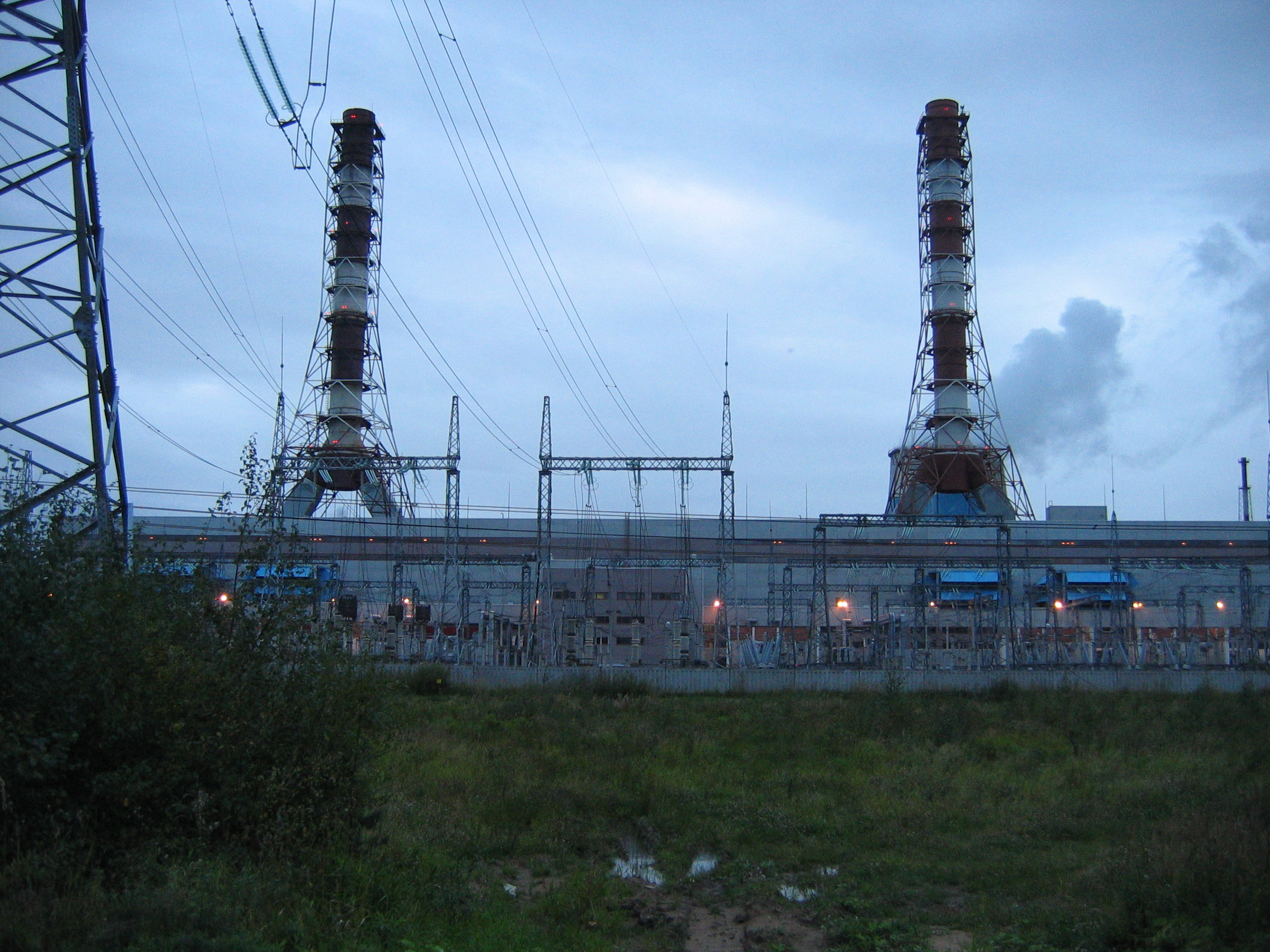 North-West CHP power station (Saint-Petersburg, Russia)